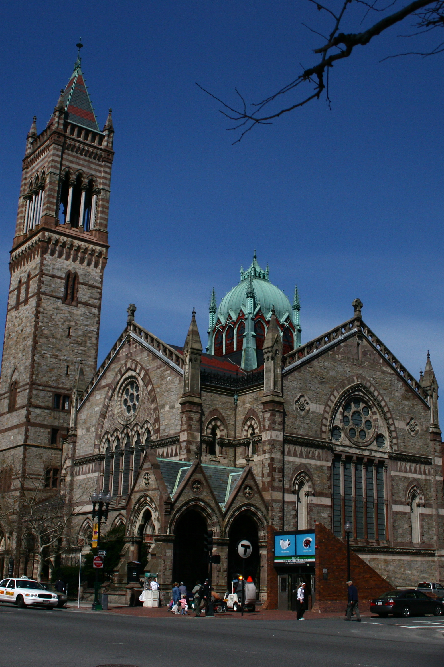 Entrance to Copley Station (since renovated) in front of Copley Church